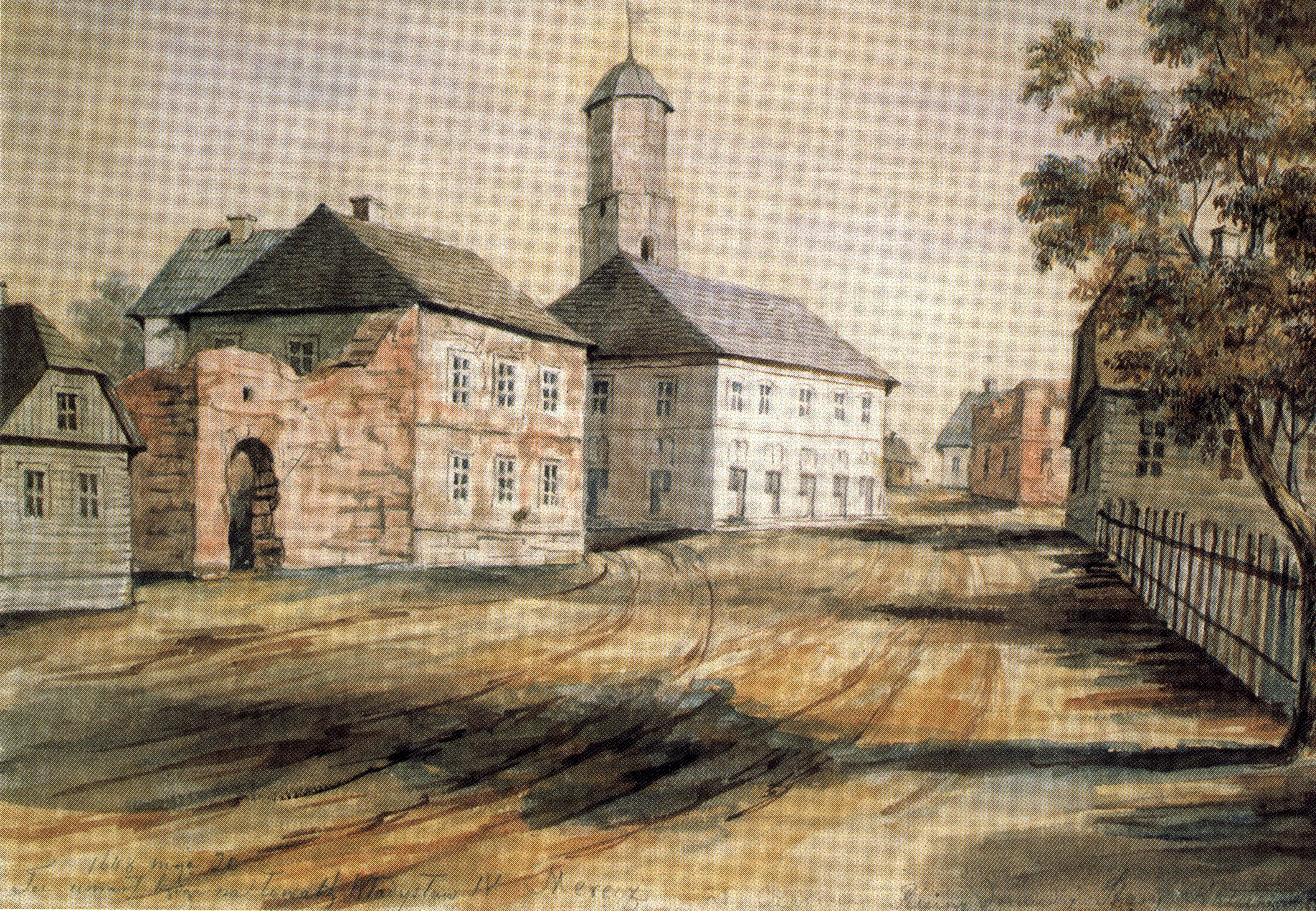 View of Merkinė town hall in 19th century